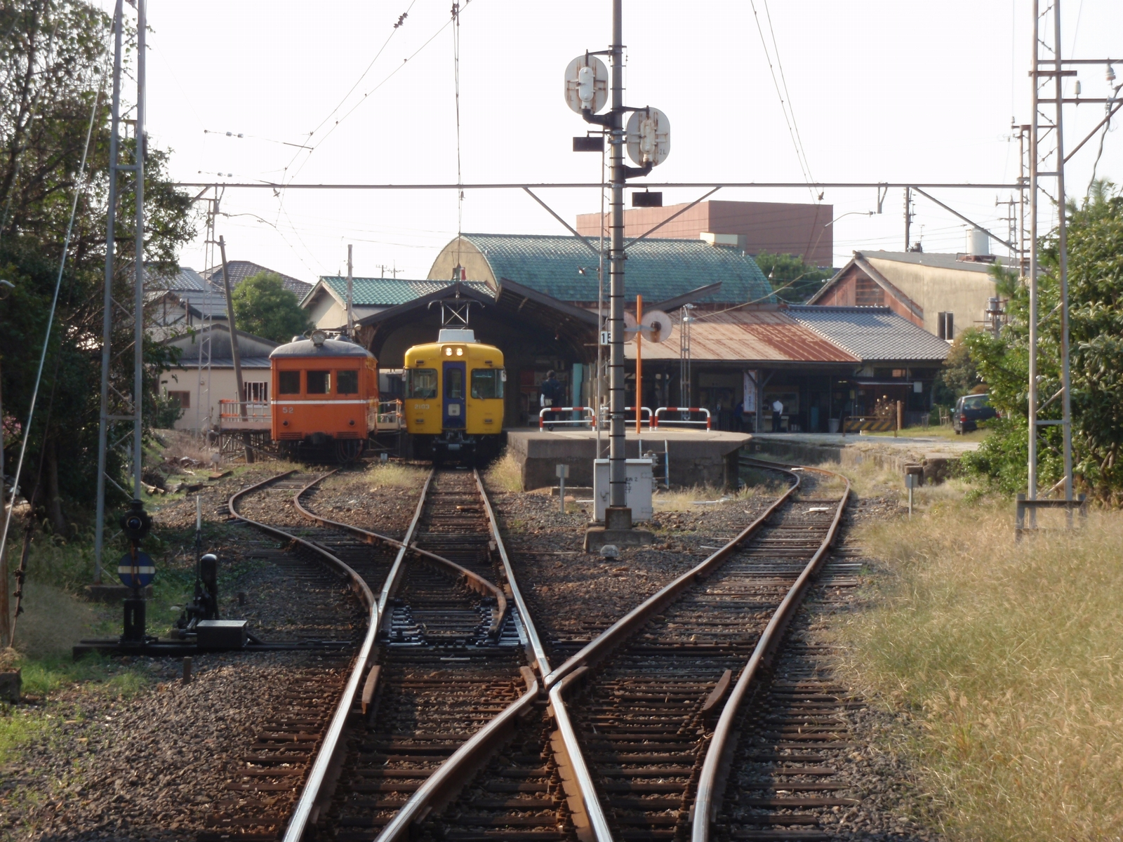 Inside of Izumotaisha-mae Sta.